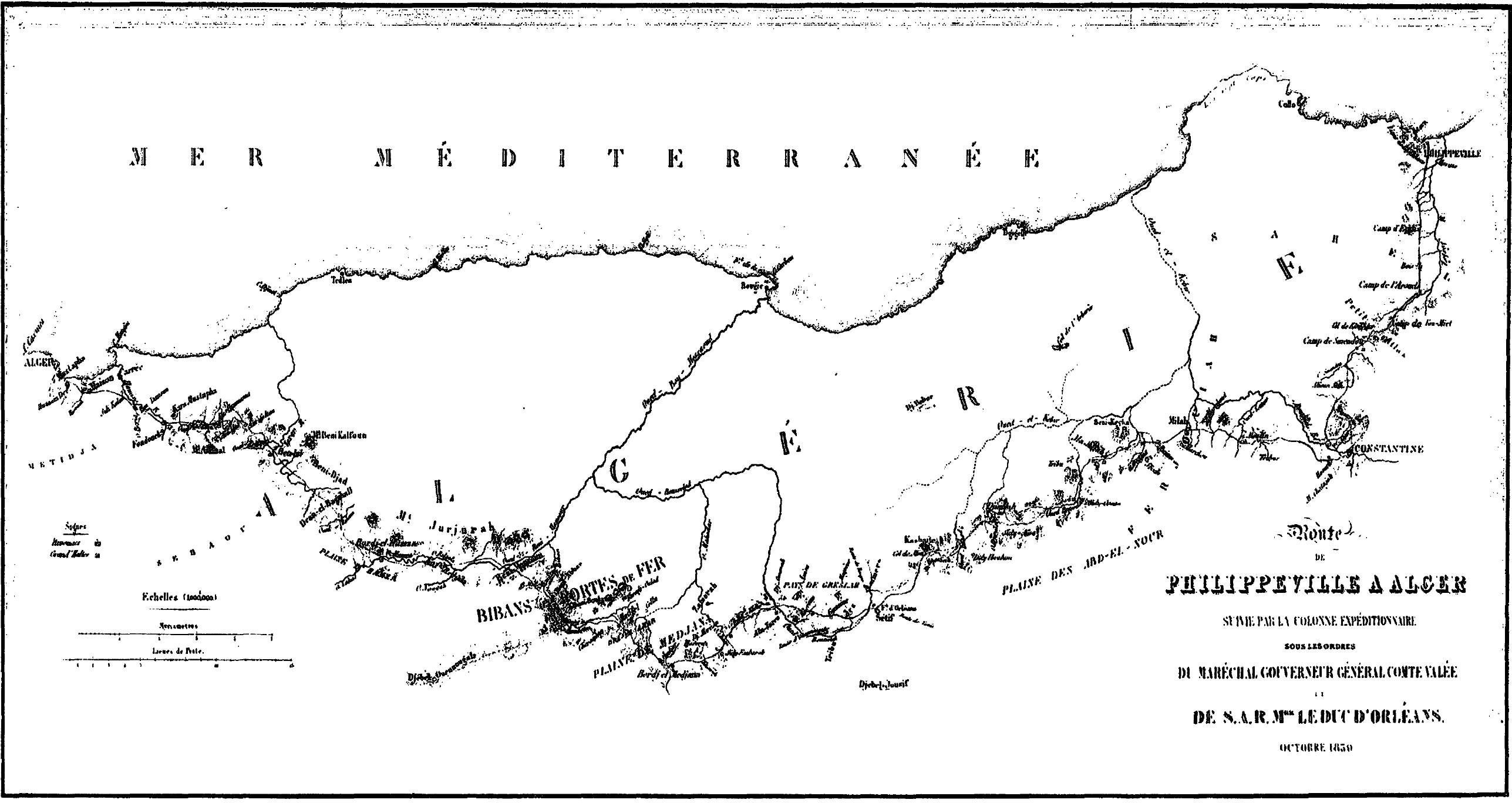 Map of the French "expédition des Portes de Fer" 1839